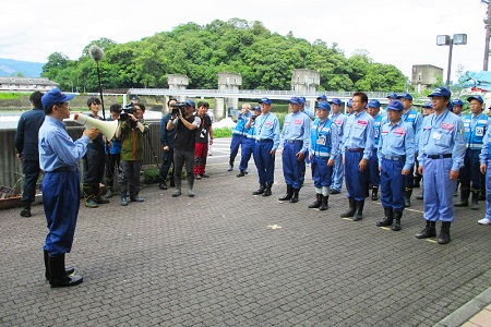 Keiichi Ishii, Minister of Land, Infrastructure, Transport and Tourism, appreciated members of the Technical Emergency Control Force who restored in the damaged area by the Northern Kyūshū Heavy Rain on July 9, 2017.